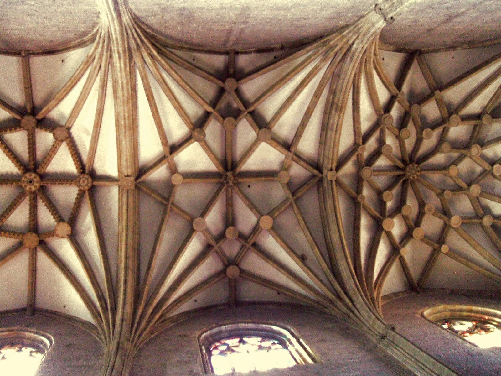 Basílica de la Asunción de Nuestra Señora, Lequeitio (Vizcaya, País Vasco, España)